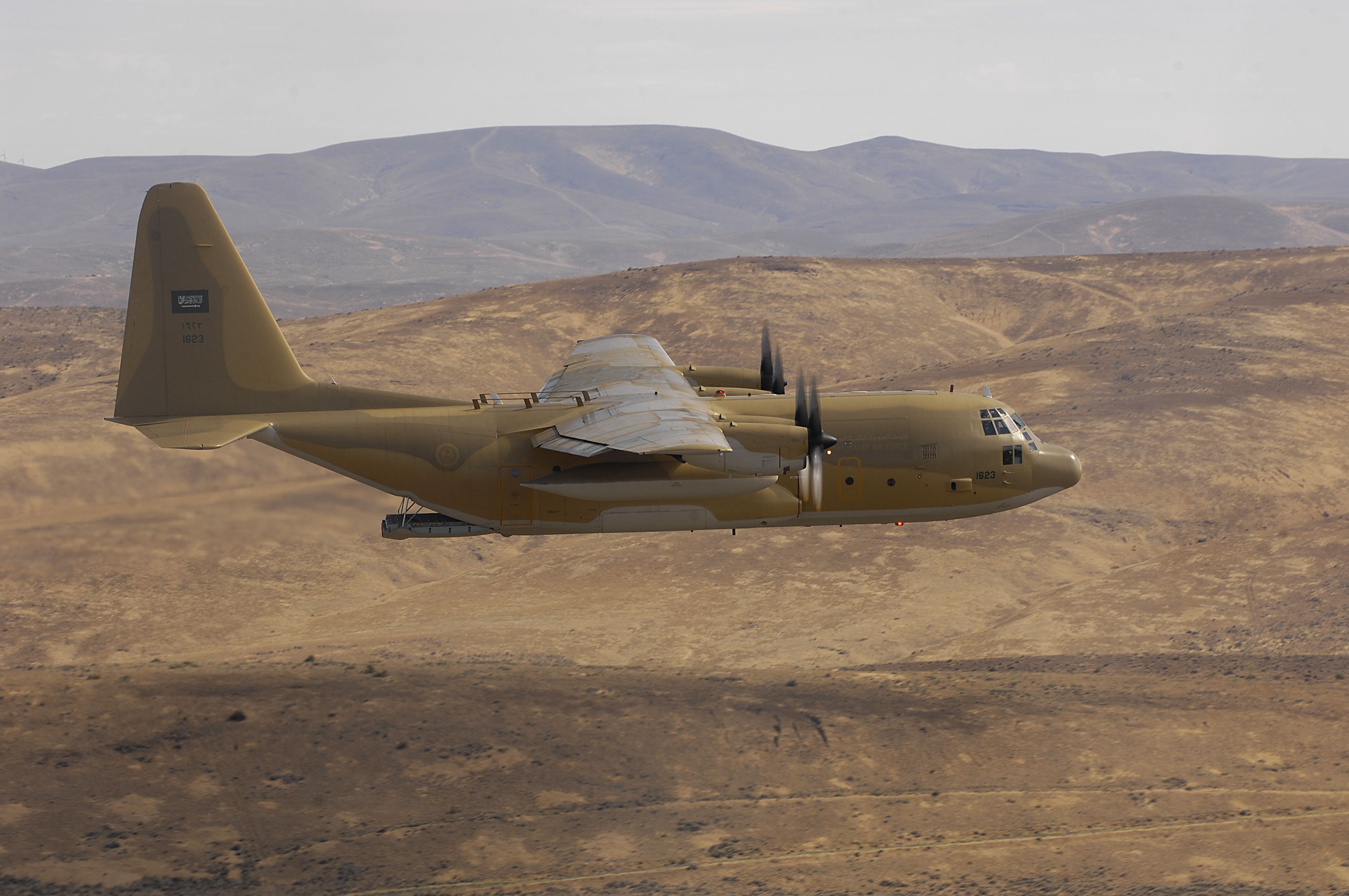 A Royal Saudi Air Force C-130 Hercules aircraft participates in the airdrop competition over McChord Air Force Base, Wash., July 23, 2007, during Rodeo 2007. Rodeo 2007 is an Air Mobility Command readiness competition with U.S. and international mobility air forces, focusing on improving war fighting capabilities and support of the war on terrorism. (U.S. Air Force photo by Staff Sgt. Richard Rose/Released)